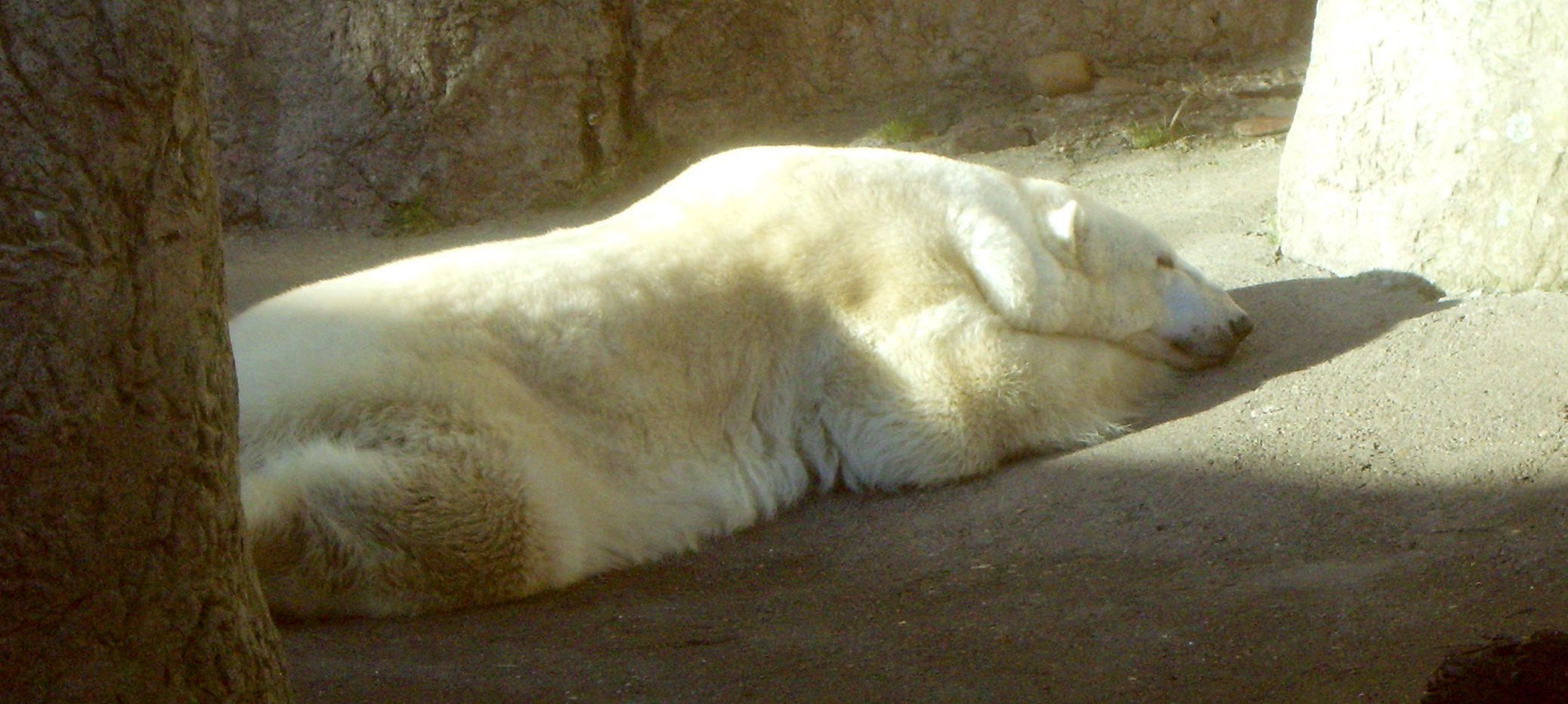 Polar Bear (Ursus maritimus) on exhibit at the Oregon Zoo